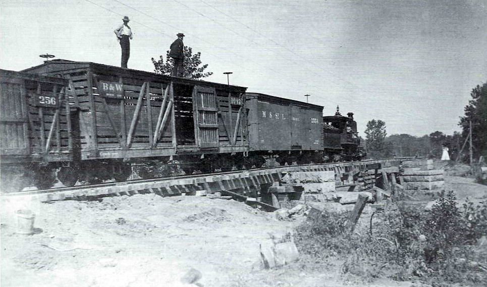 Burlington and Western Railway Locomotive #5 on the dual-gauge mainline of the Burlington, Cedar Rapids and Northern pulling a northbound train headed by 2 standard-gauge cars, a Minneapols and St. Louis box car and a Burlington and Western stock car. Both cars are mounted on narrow-gauge trucks. Locomotive #5 is a 2-6-0 built by Grant Locomotive Works and renumbered 55 around the time of this photo. The track at this point is on a timber trestle over Dry Branch Creek, with new stone abutments for a 110 foot two-span bridge under construction and new fill behind the abutments. The next bridge up the line is very similar and dated 1898; this photo was probably taken that summer. Note: This image has been edited to remove numerous speckles from the sky and a few scratches.